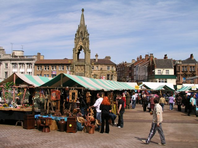 Mansfield marketplace Mansfield Market Place The town centre of Mansfield, showing the Market and surrounding buildings. The Bentinck Memorial of 1849 (seen rising above the stalls) was intended to house a statue of Lord George Bentinck (1802 – 1848), the son of a major local landowner, but was never finished leaving a visible open space. This view was prior to a major resurfacing renovation during 2005/6.